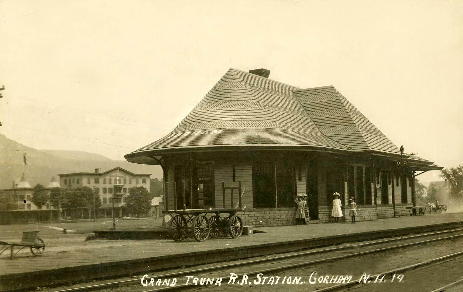 Grand Trunk Railroad Station, Gorham, New Hampshire early 1900s. Photo from an early 1900s postcard.